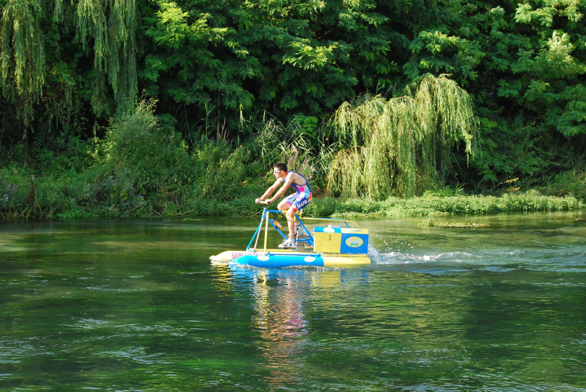 The traditional Palio della Tinozza competition in Rieti, Lazio, Italy. 2008 edition.